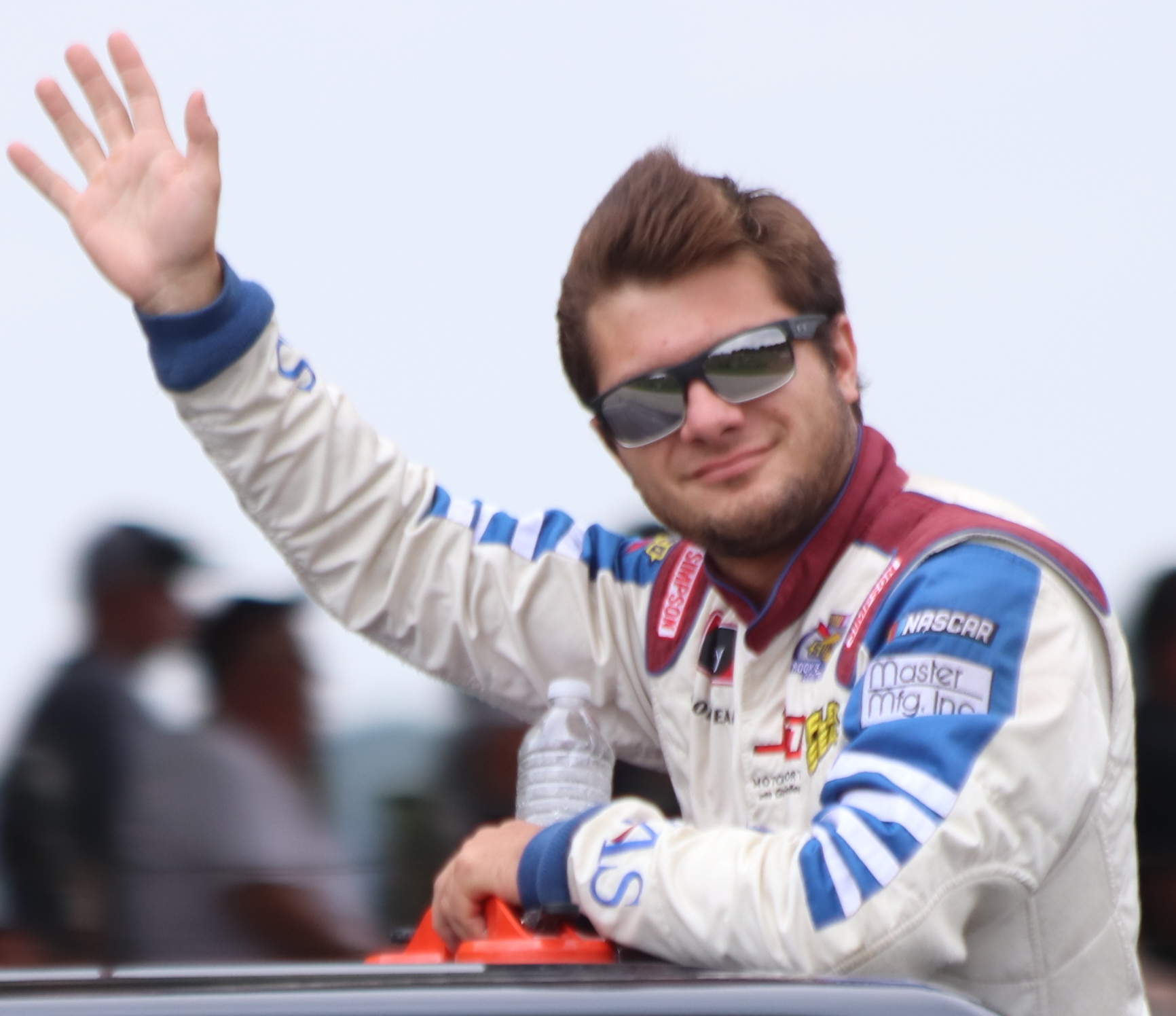 NASCAR Xfinity Series driver Vinnie Miller waves to fans at the 2018 Road America race.